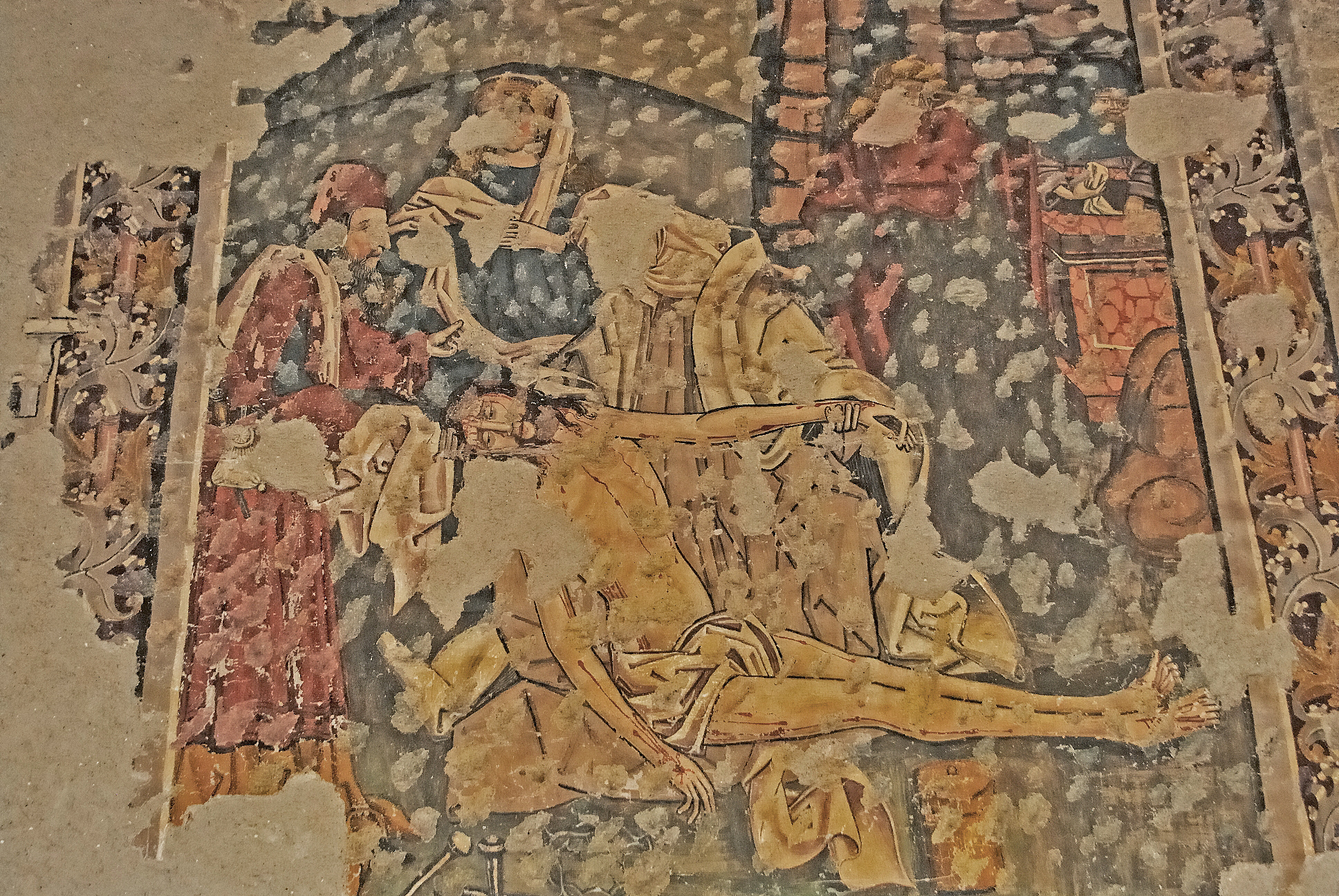 Fresco Descent from the cross Parish Church of Trofaiach Church entrance